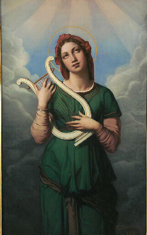 Museo Ingres de Montauban